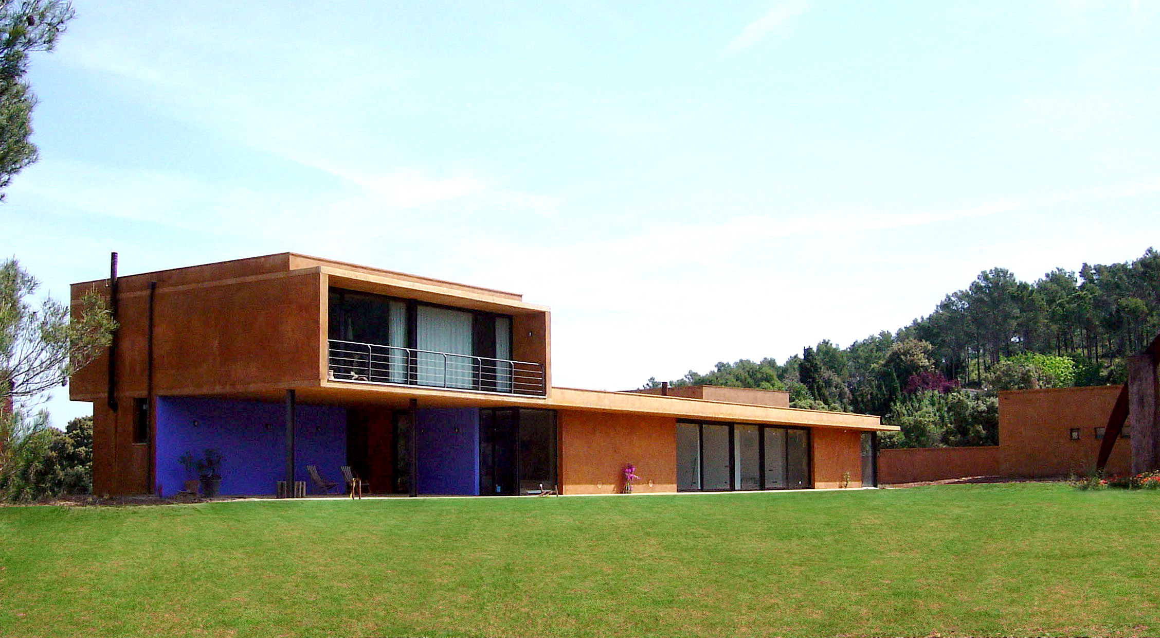 Home and Studio for an Artists in Ventalló